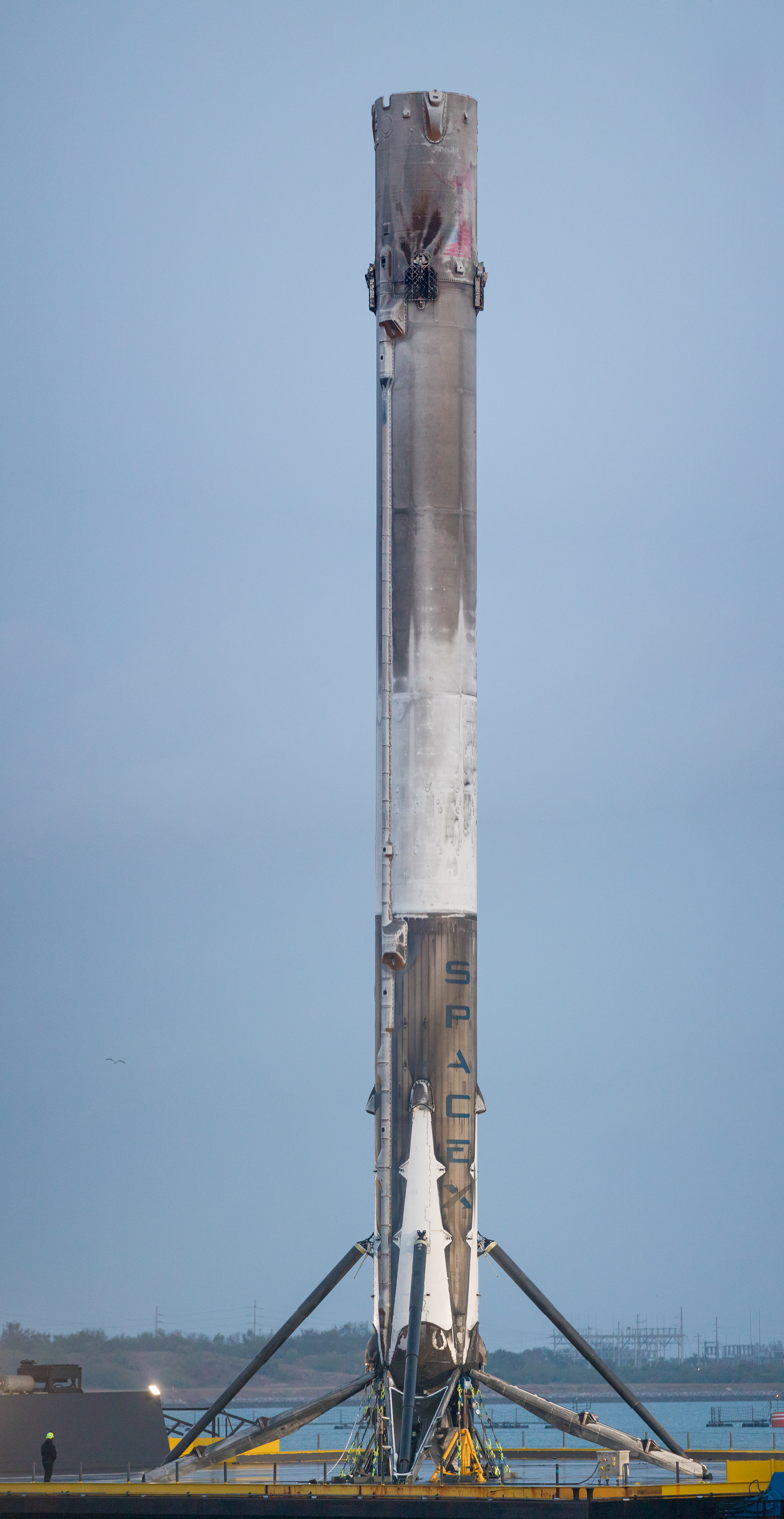 High resolution photo merge of the #SpaceX #SES10 #Falcon9 "flight proven" first stage, the second time it's been launched and landed. Shots taken from Jetty Park Pier and Port Canaveral as the "Of Course I Still Love You" drone ship carries the first stage home. Note the person, for scale. This is a merge of 5 miages all shot at 200mm, creating a (cropped) image at 8064x4162 (I cropped to the image, not necessarily to any particular print size, sorry) (Photos by Michael Seeley / We Report Space)